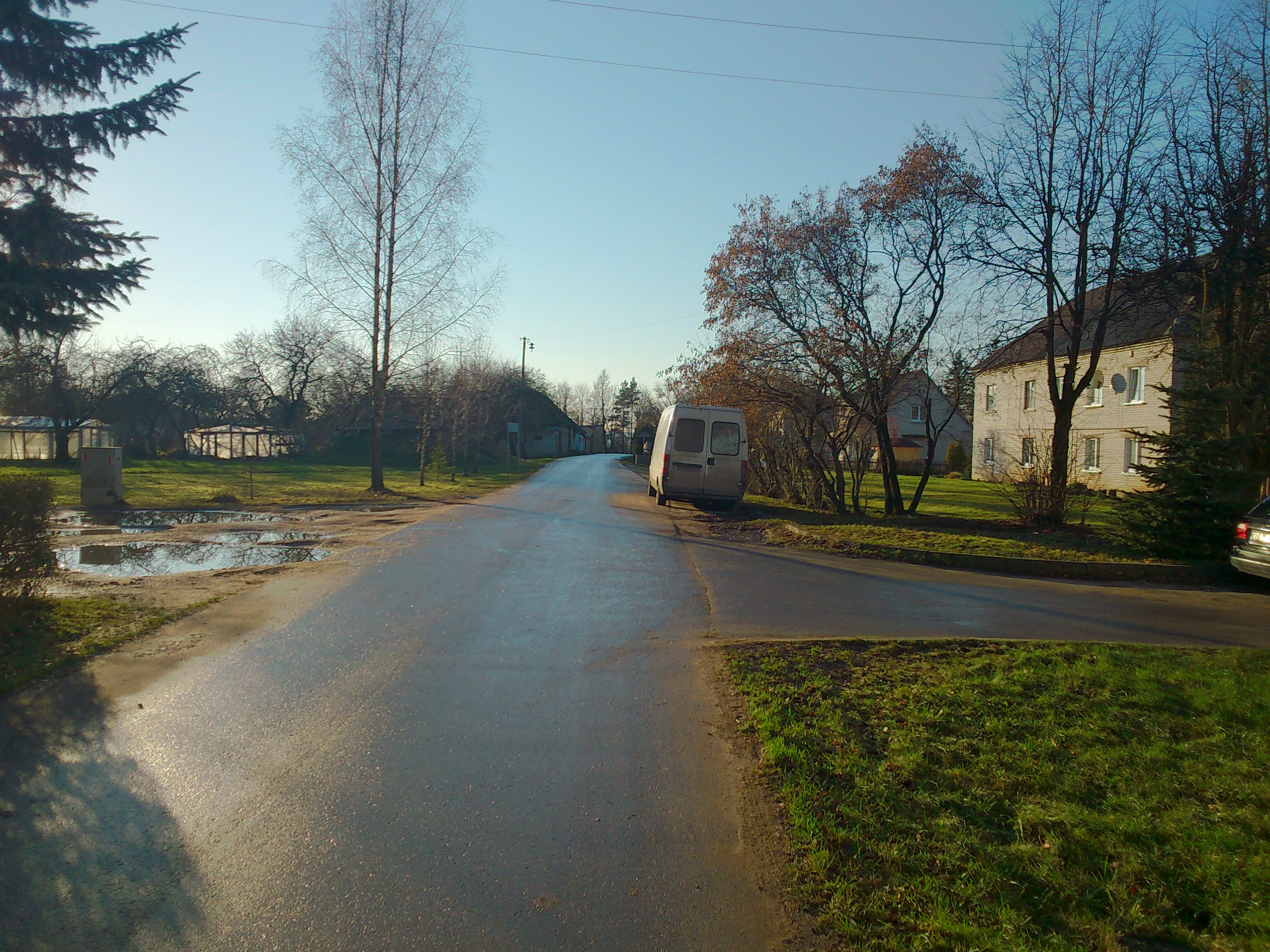 Street Miškininkų, Jonava